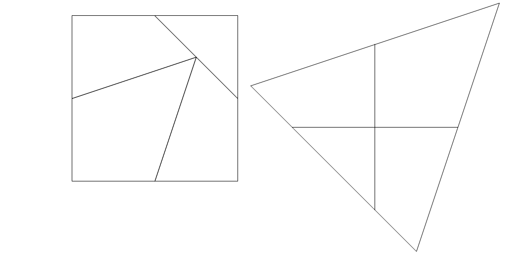 Haberdasher's problem. Cut a square un 4 and rearrange them to form an equilateral triangle.